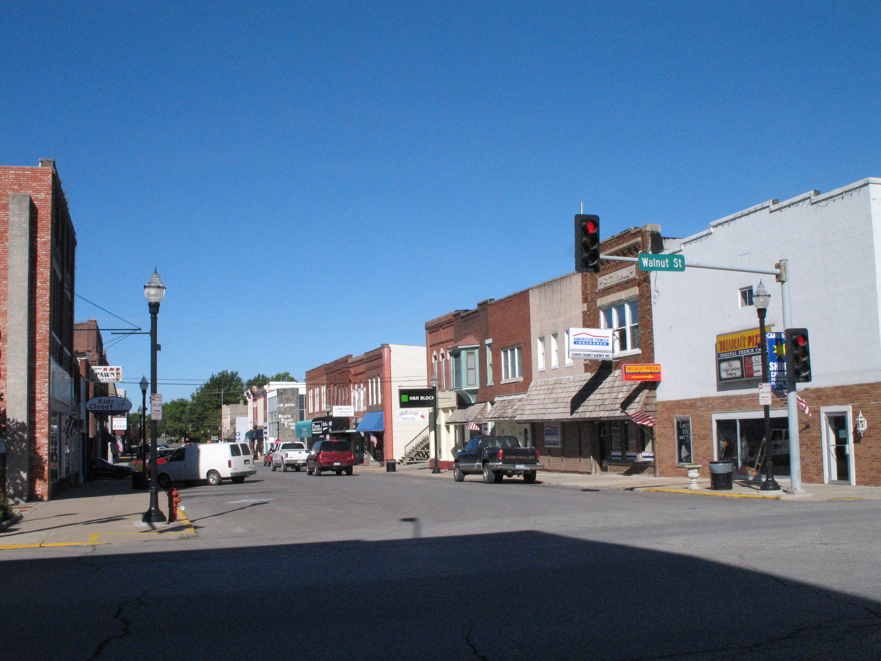 Olde town Cameron.